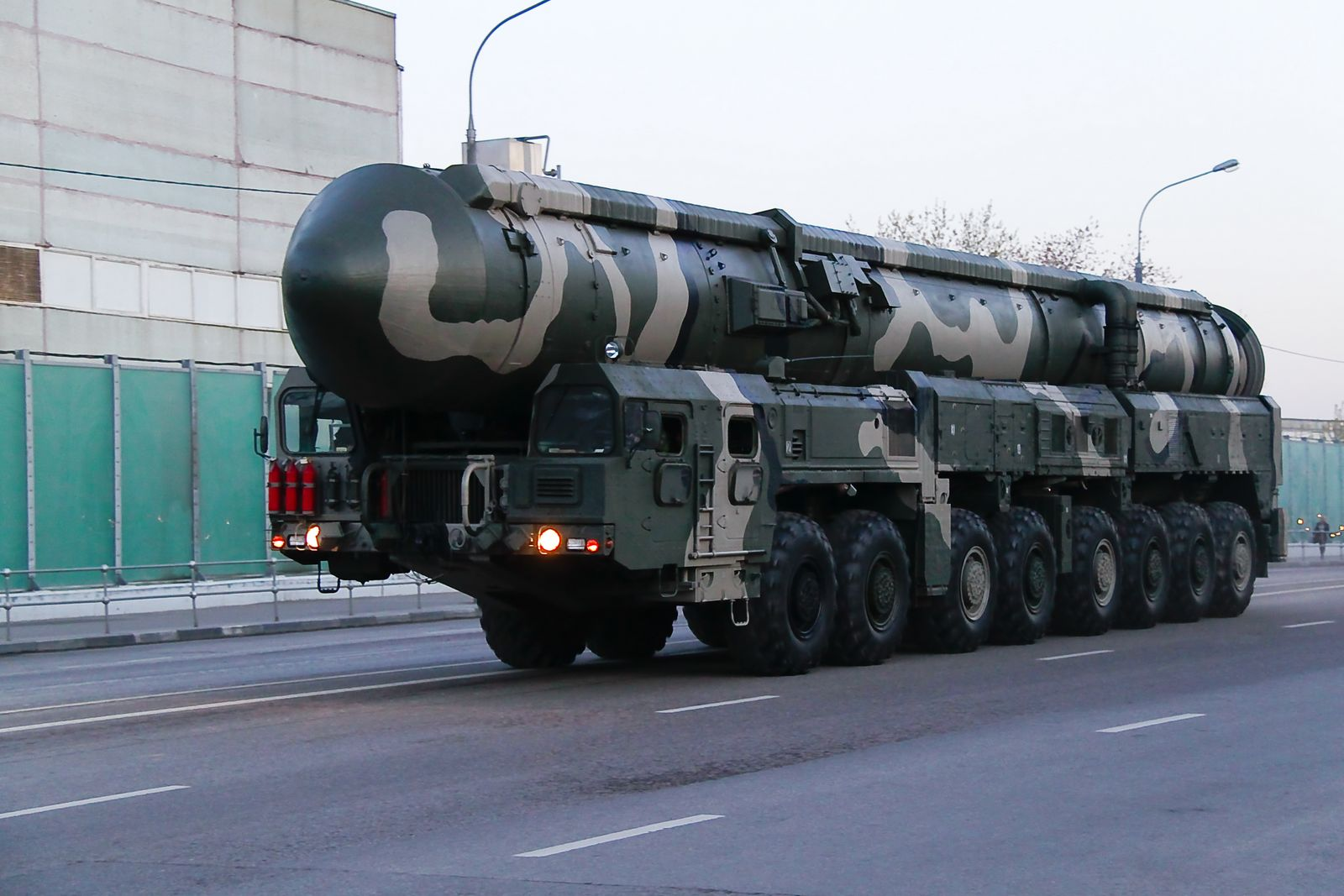 A Russian RT-2UTTKh Topol M (NATO reporting name: SS-27 Sickle B) ICBM on its MZKT-79221 TEL.